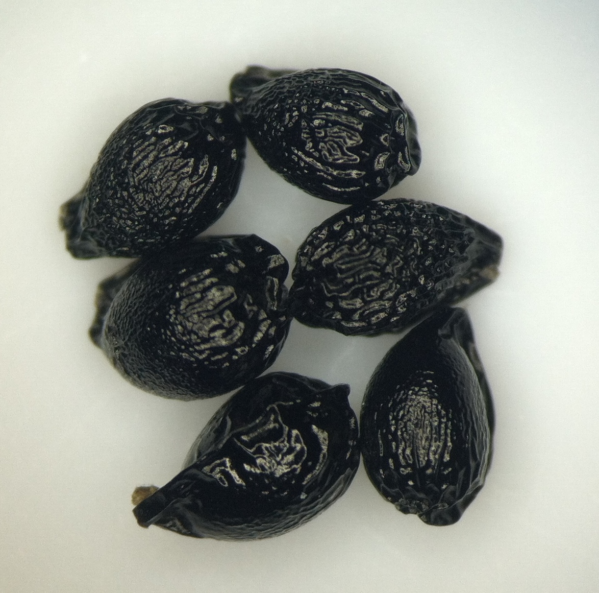 Seeds from a wild Camassia quamash